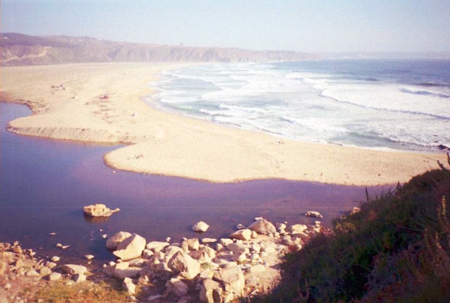 Tunquen beach, near Valparaiso Chile